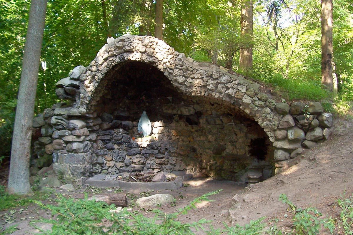 Copyright © 2005 Sulfur The Our Lady of Lourdes Grotto is a small yet influential grotto located on the grounds of St. Francis Seminary in St. Francis, Wisconsin. It was built in 1894.[1]